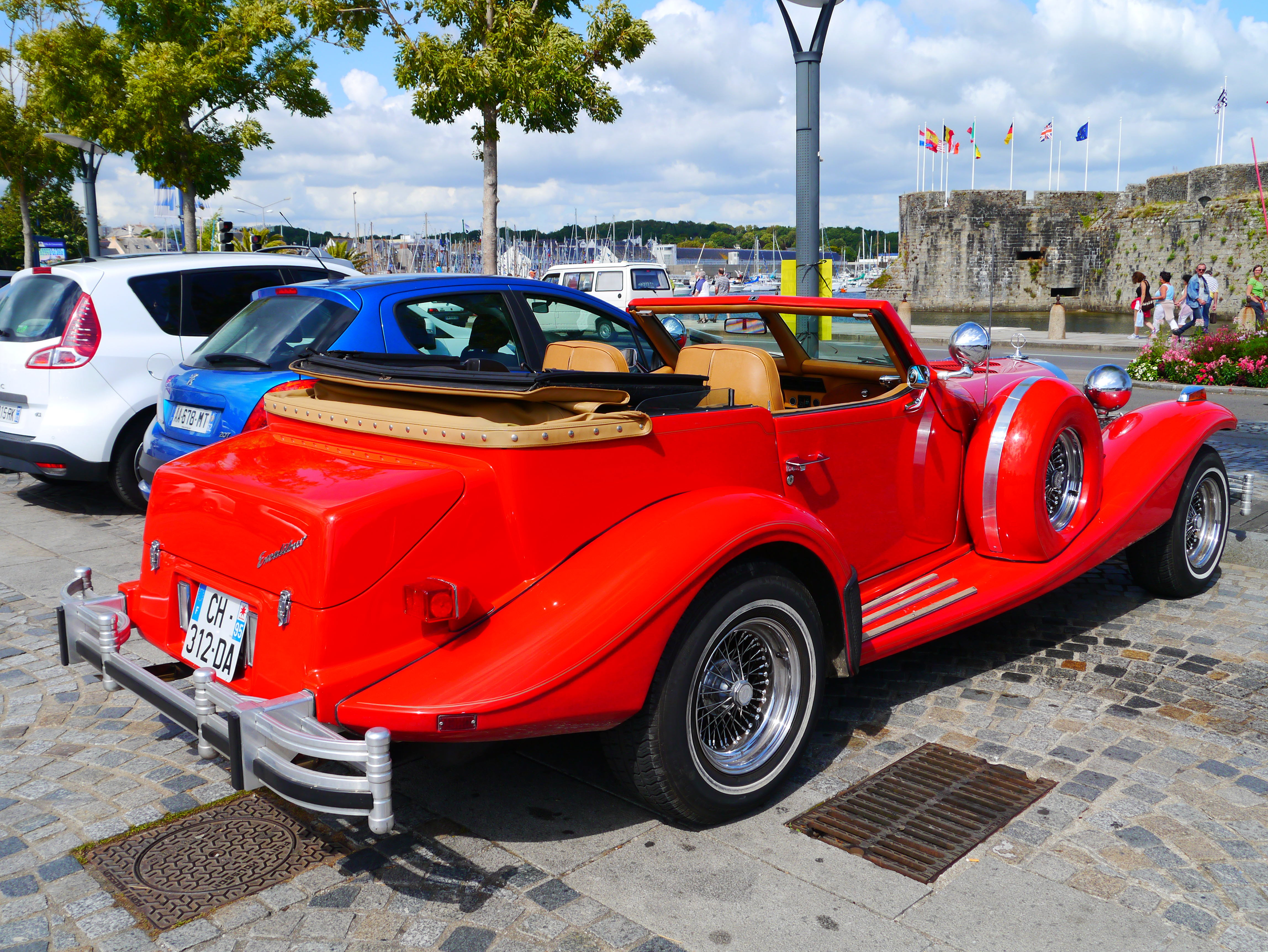 Excalibur Phaeton (not 100% sur of the exact model and phase...). Not something you see everyday....!